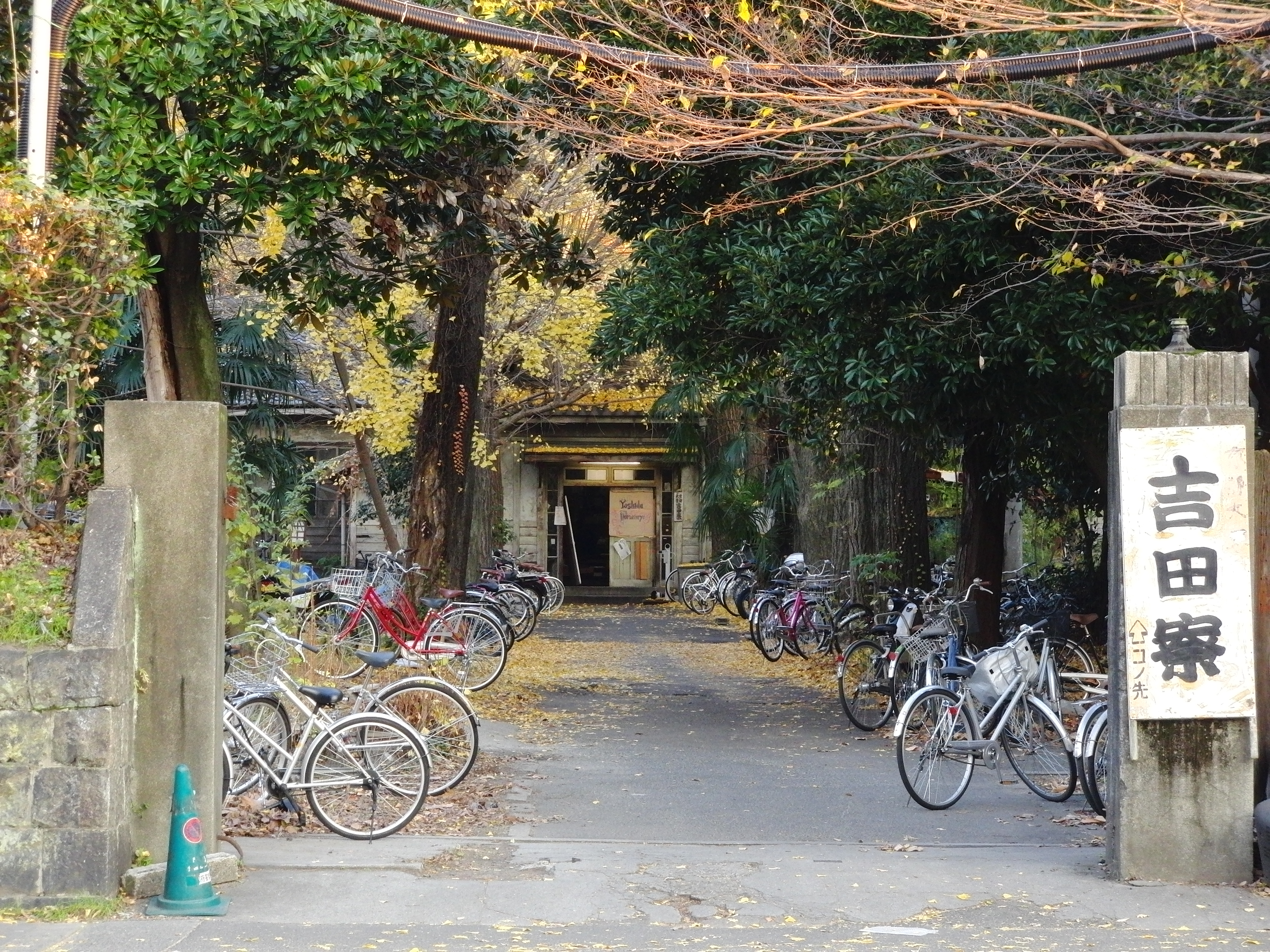 Entrance to Yoshida Dormitory, Kyoto University (December 2011)